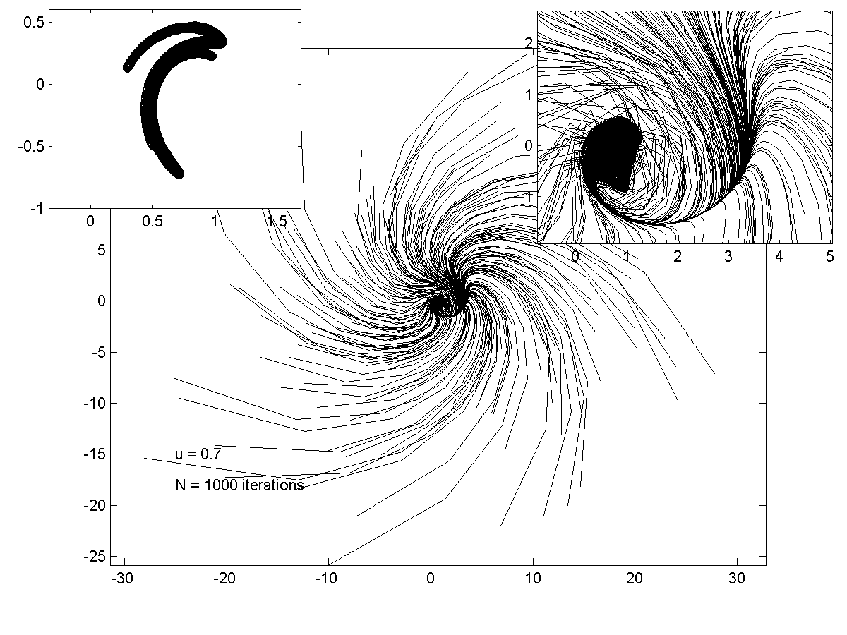 Ikeda trajectory plot made using MATLAB